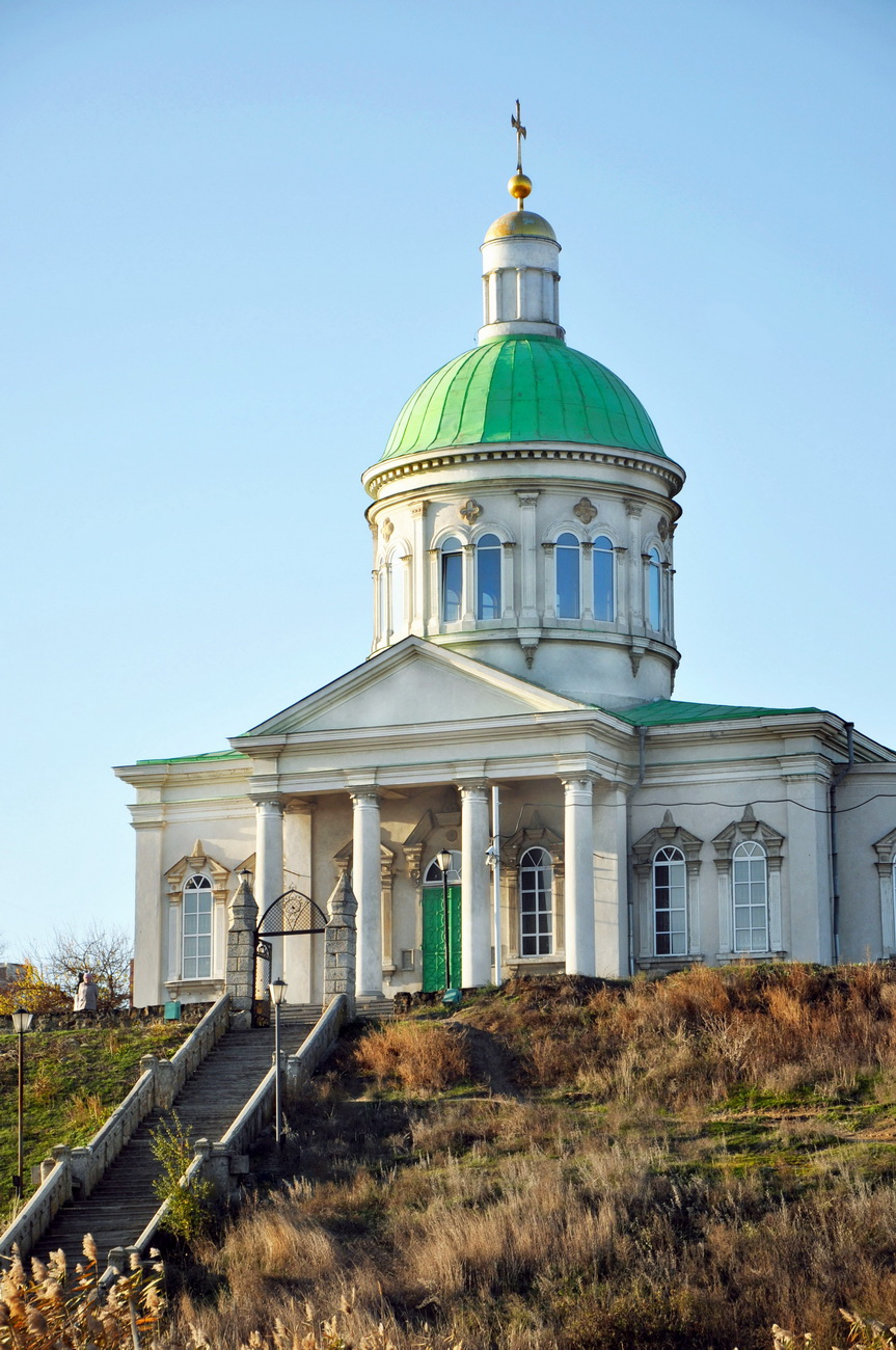 The Armenian Apostolic Church of Holy Cross (Holy Cross), Rostov-on-Don, Russia. Collegiate Church was built from 1786 to 1792 by the famous Russian architect IE Starov.